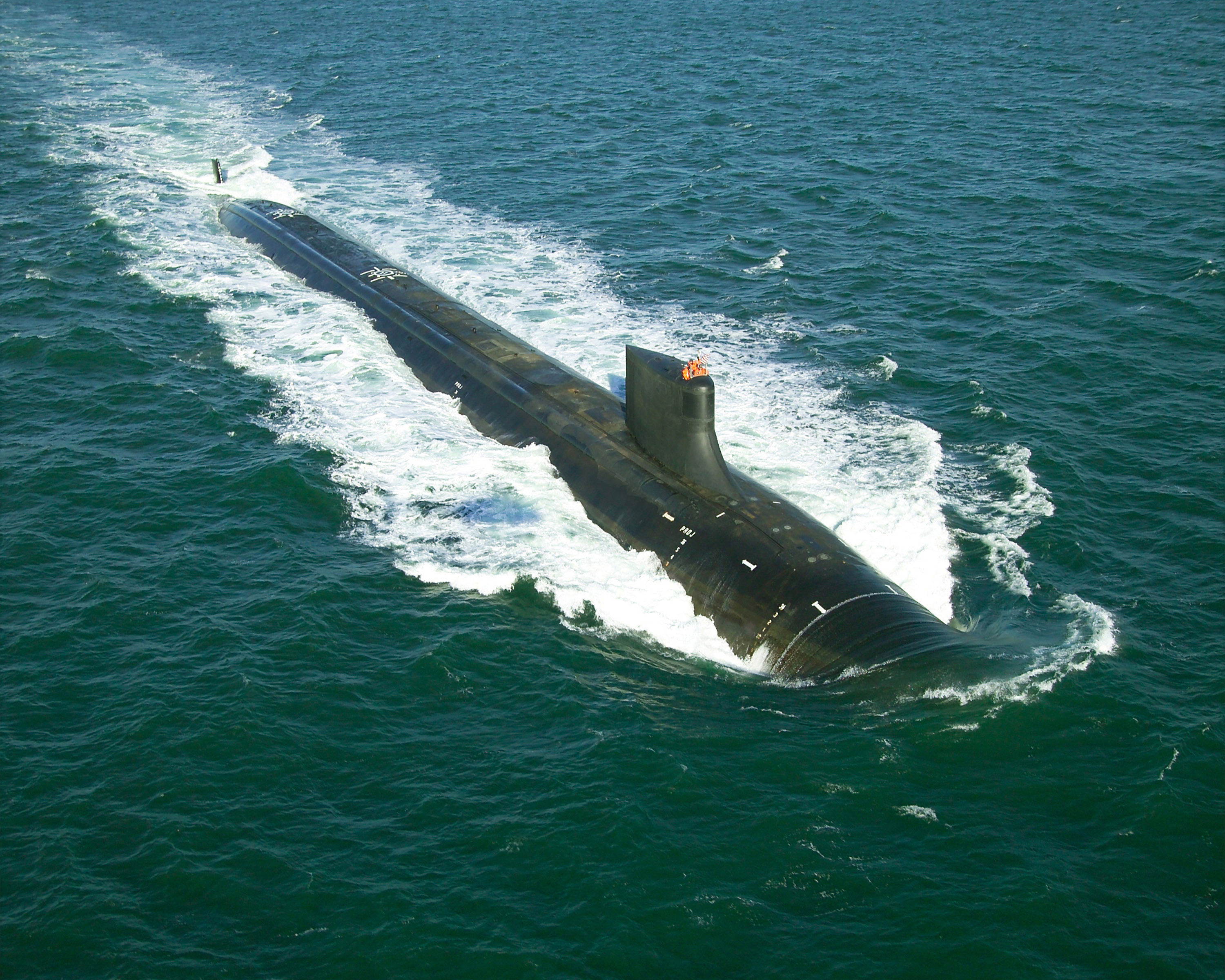 Groton, Conn. (Feb. 3, 2005) - The Seawolf-class nuclear-powered attack submarine USS Jimmy Carter (SSN 23), underway during sea trials. Built by General Dynamics Electric Boat in Groton, Conn., Seawolf is the fastest, quietest, most heavily armed submarine in the world. Jimmy Carter is the third and final submarine of the Seawolf-class. A unique feature of the Jimmy Carter is a 100-foot hull extension called the Multi-Mission Platform, which provides enhanced payload capabilities, enabling the submarine to accommodate the advanced technology required to develop and test a new generation of weapons, sensors and undersea vehicles. The Jimmy Carter was delivered to the U.S. Navy on Dec. 22, 2004 and is due to be commissioned on Feb. 19, 2005.